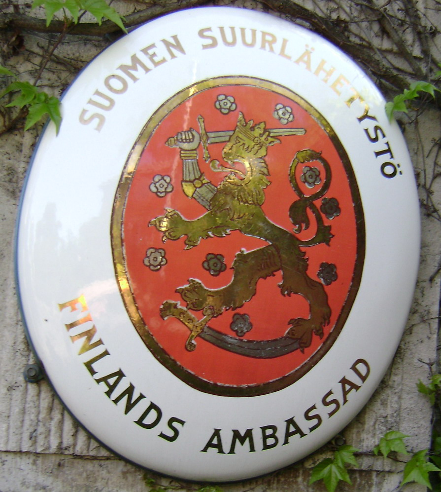 The Finnish coat of arms at the Finnish Embassy in Budapest, Hungary.